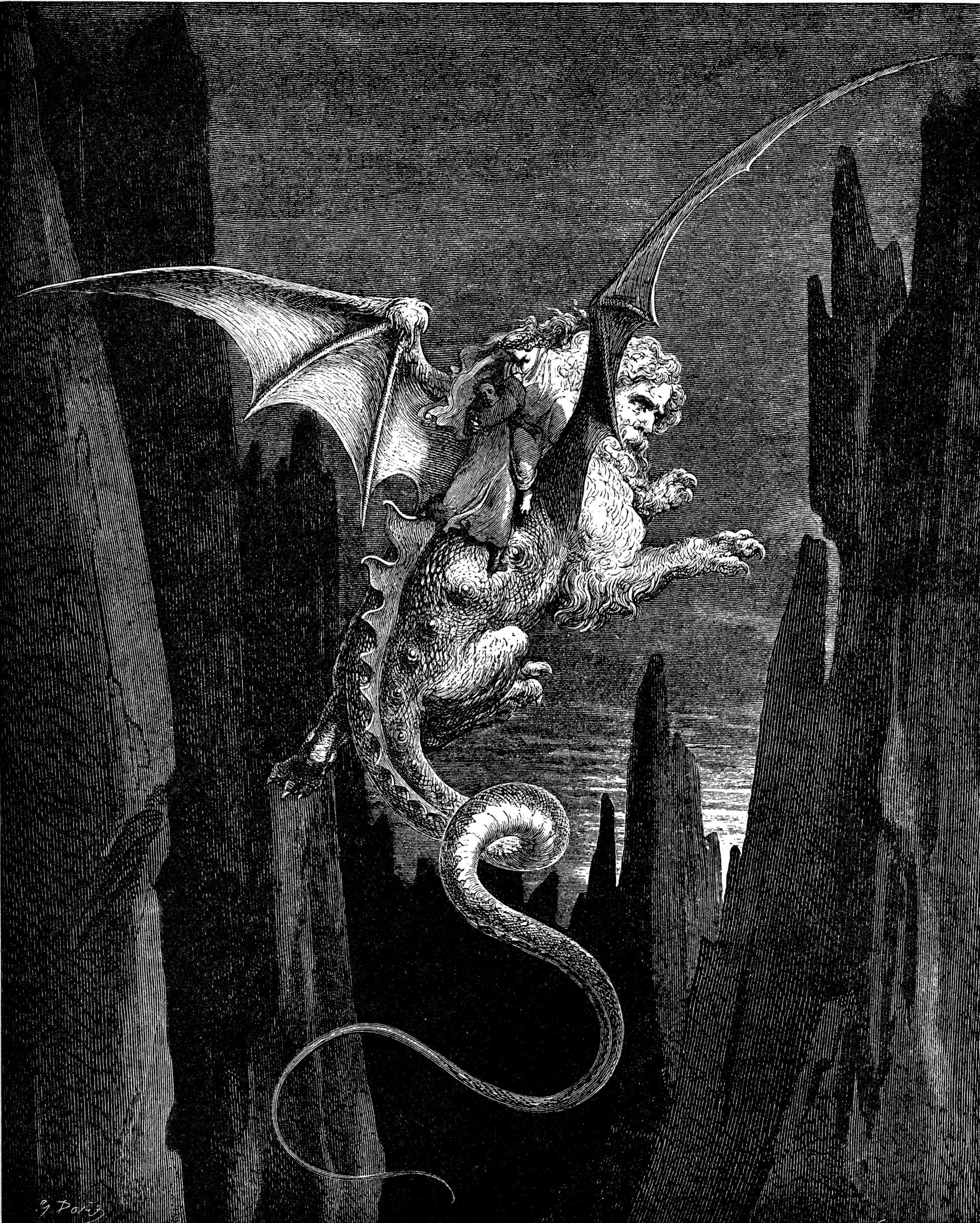 High resolution scan of engraving by Gustave Doré illustrating Canto XVII of Divine Comedy, Inferno, by Dante Alighieri. Caption: The Descent of the Abyss on Geryon's Back